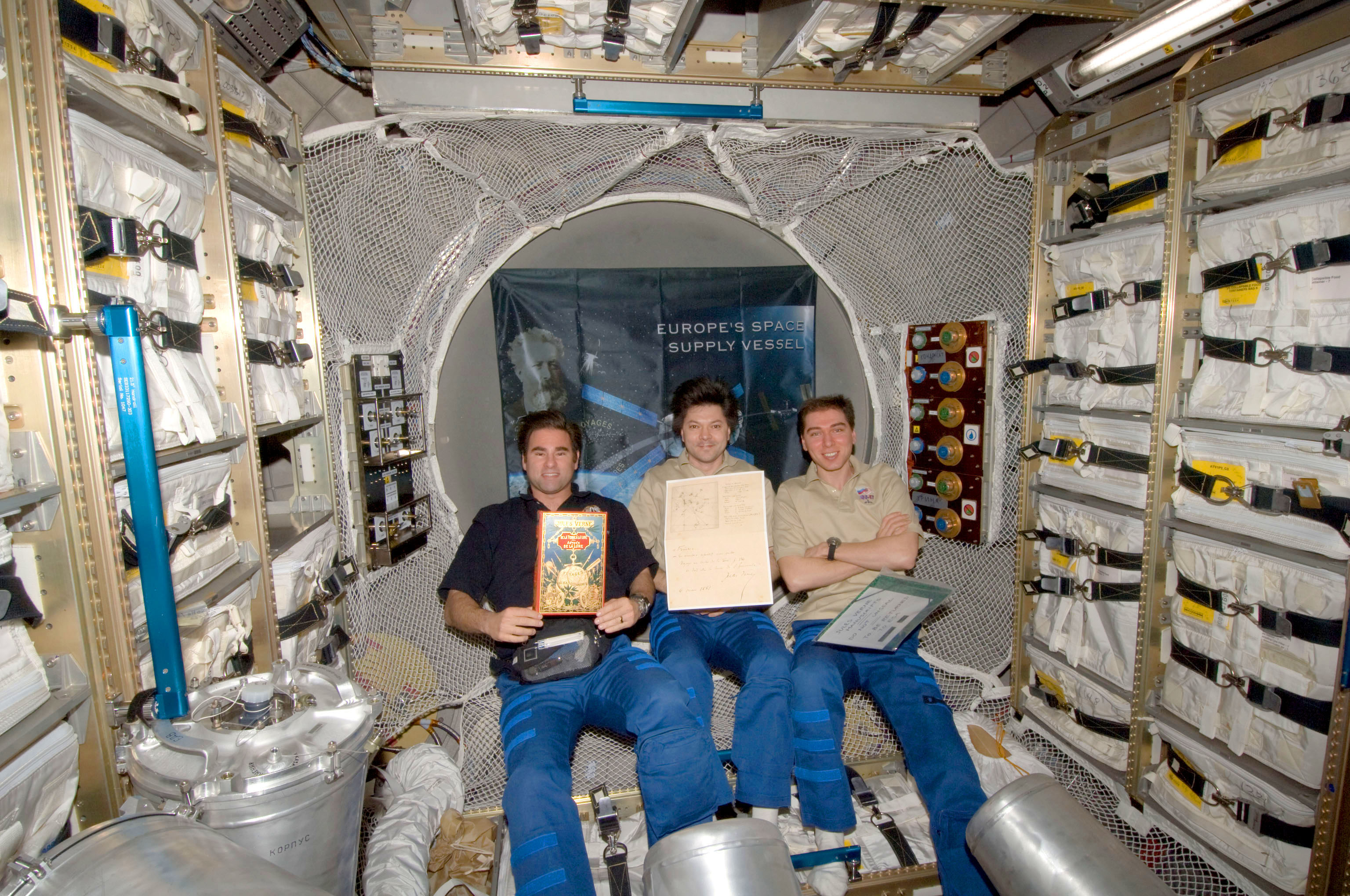 Expedition 17 crewmembers pose for a portrait inside de Jules Verne ATV with original manuscript and XIX century book by Jules Verne.